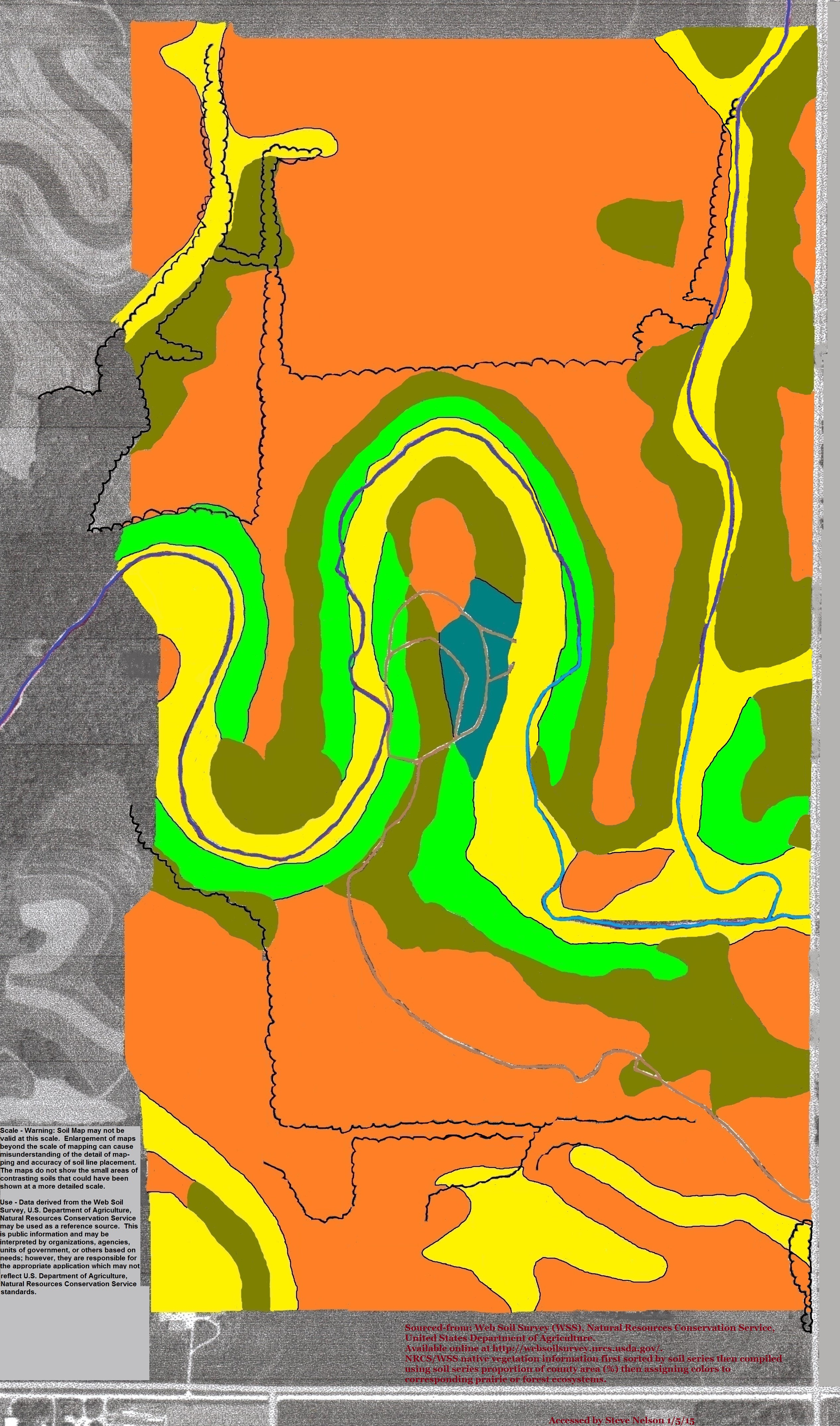 Map shows area in and around Carley State Park, one of the smallest state parks in Minnesota. Colors correspond to native vegetation on county pie chart for Wabasha County Minnesota.